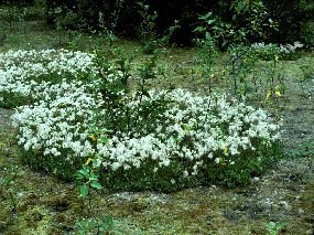 Young cottonwood trees grow out of round mats of nitrogen-fixing Dryas, which has gone to seed